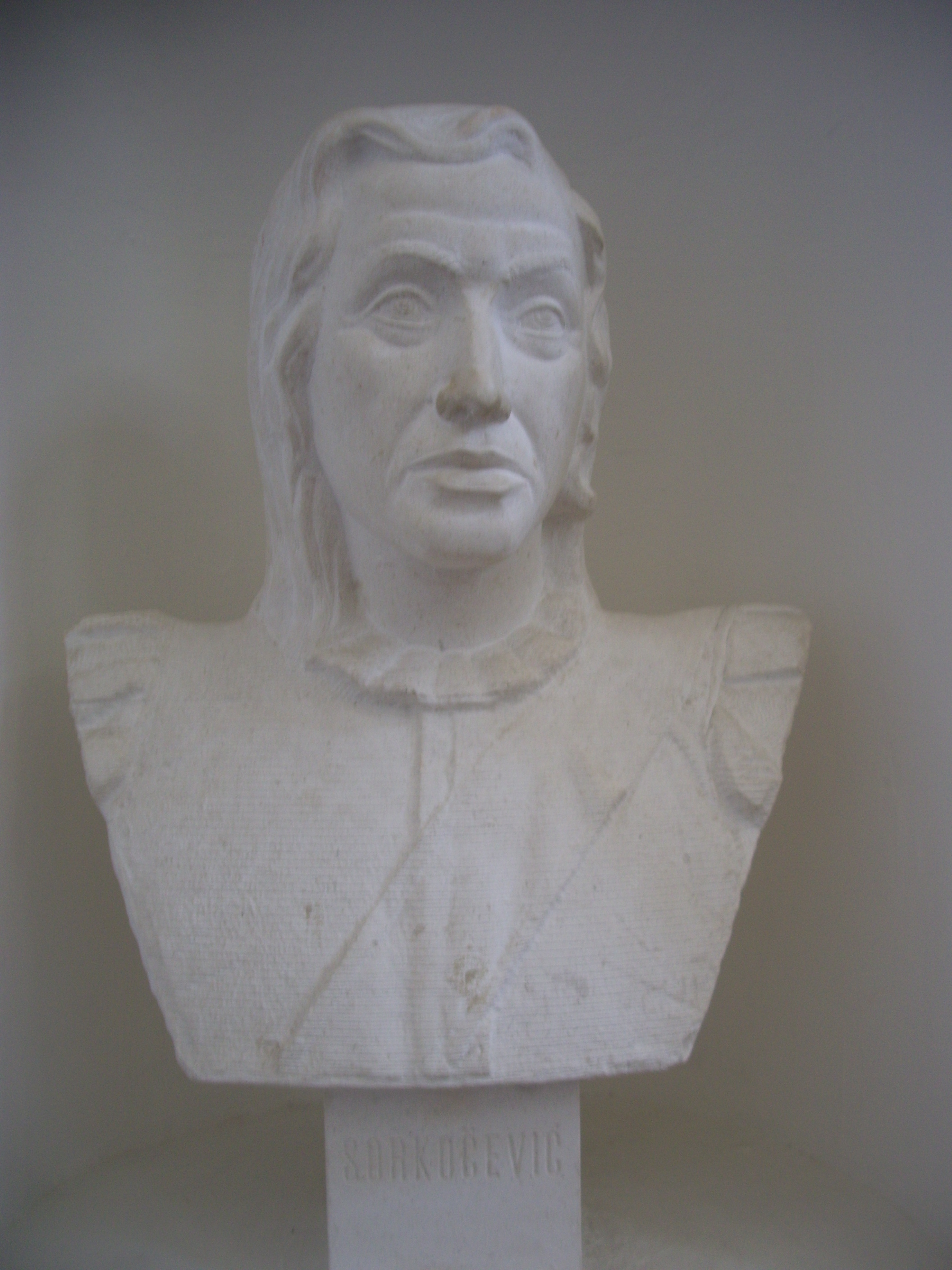 Luka Sorkočević's statue in "Luka Sorkočević" Art School in Dubrovnik, Croatia